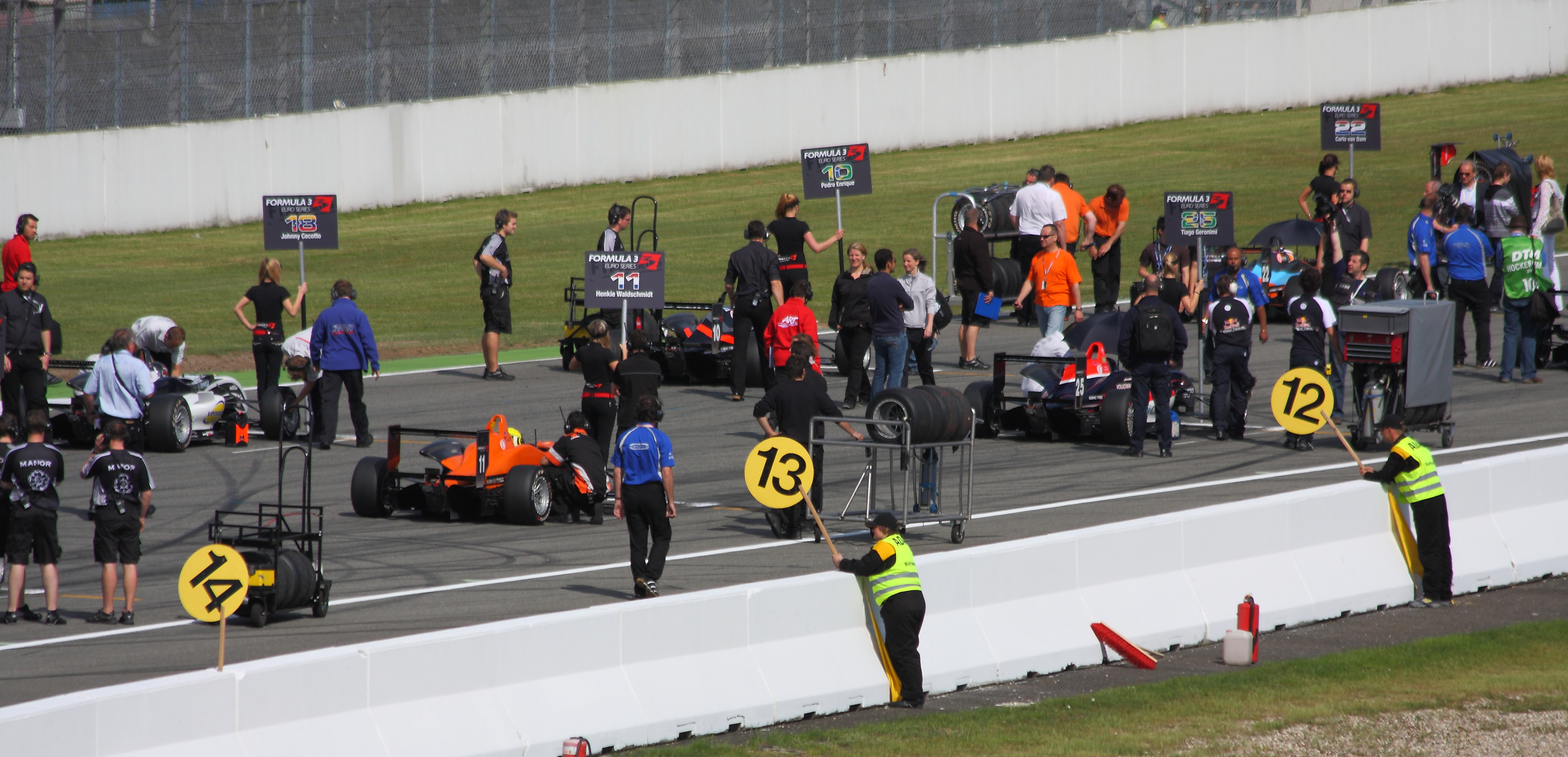 Formula 3 Euro Series 2009; Start preparation